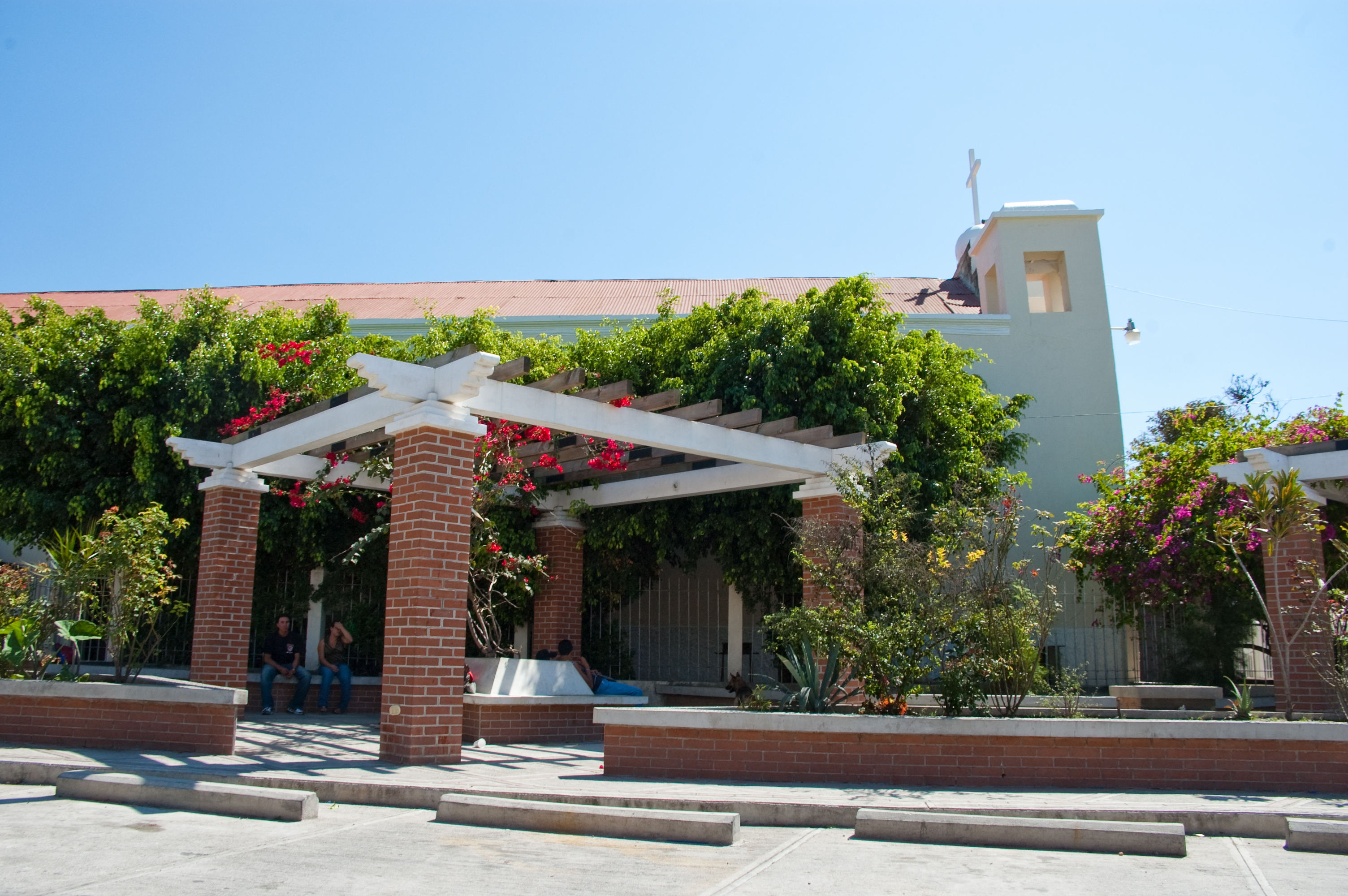 A new park, next to the Catholic Church, in Ipala, Chiquimula